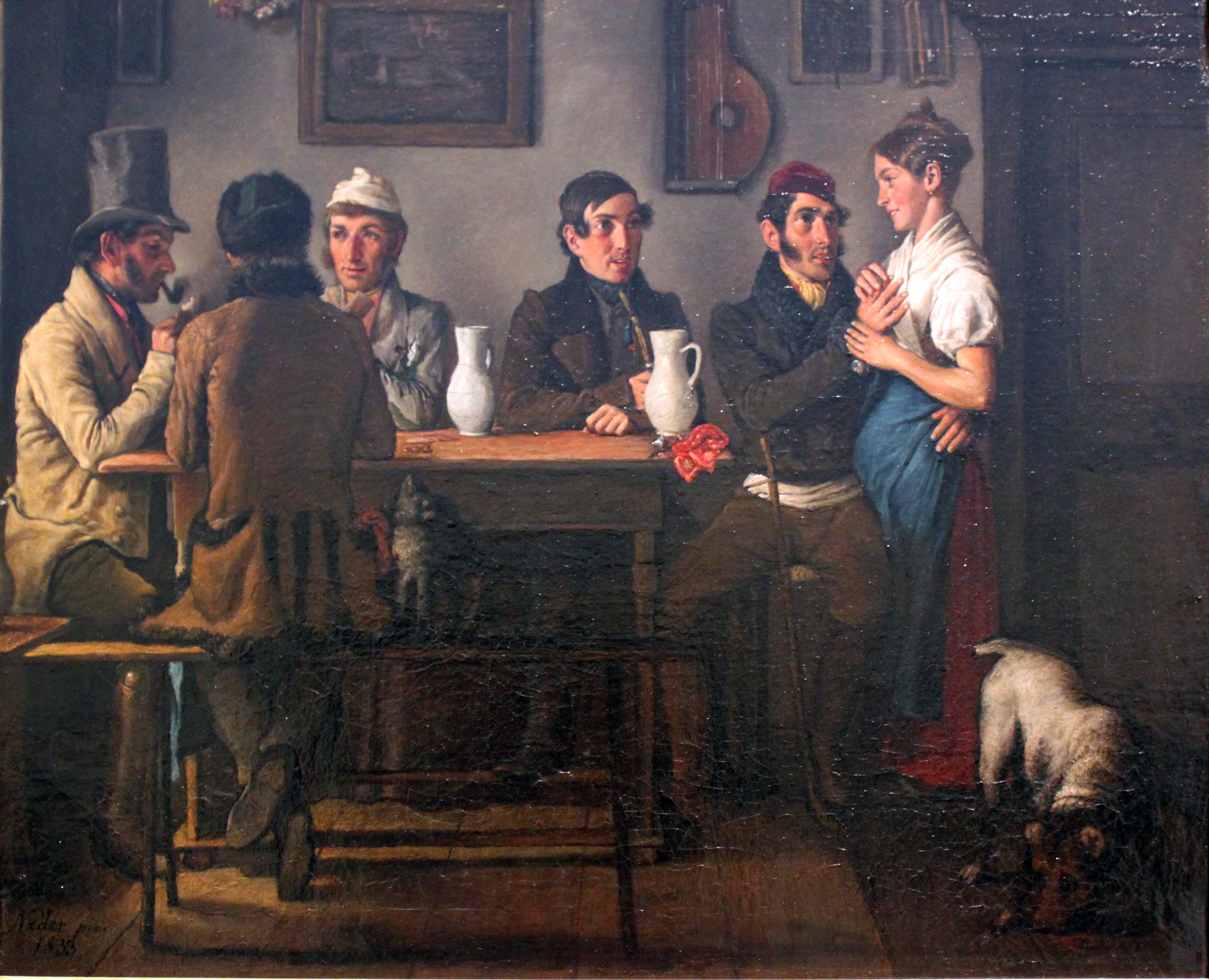 At the Tavernlabel QS:Lde,"Im Gasthof"label QS:Len,"At the Tavern"